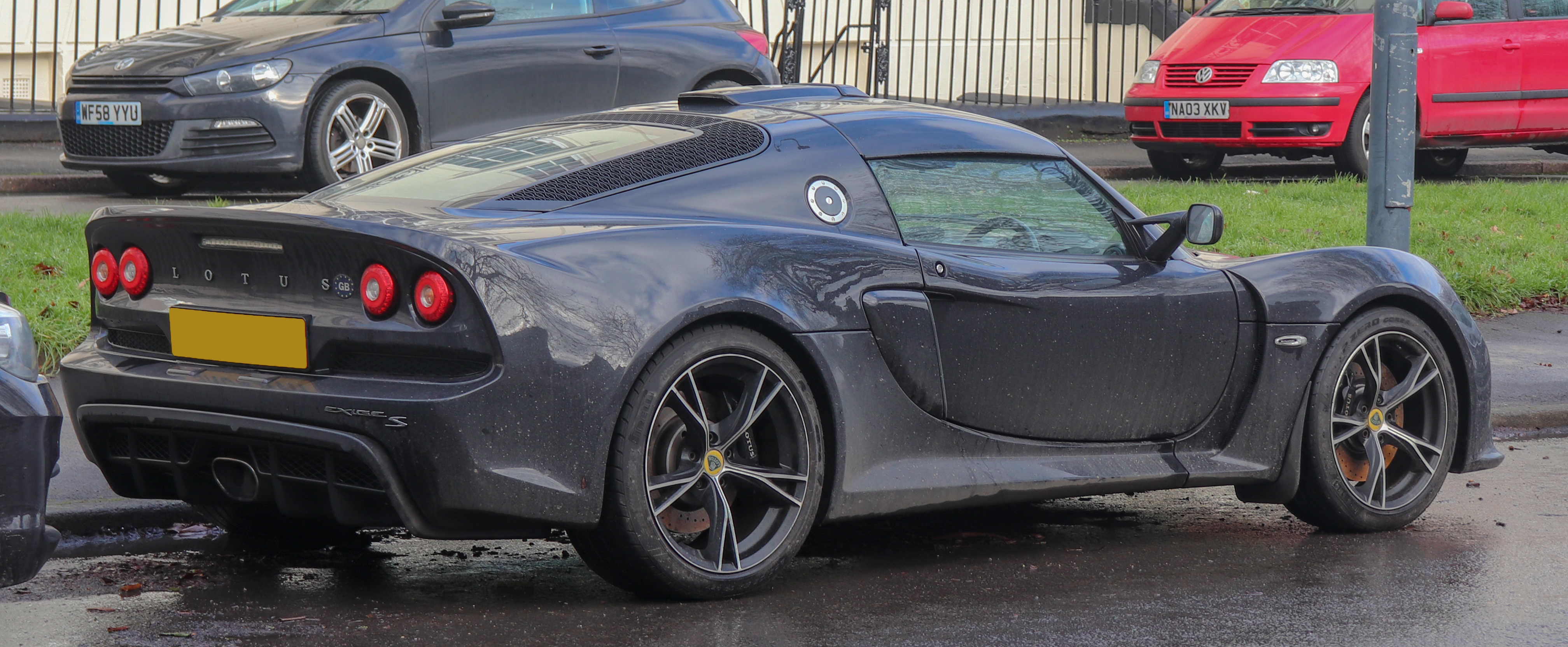 2014 Lotus Exige S Premium Roadster 3.5 Rear Taken in Leamington Spa